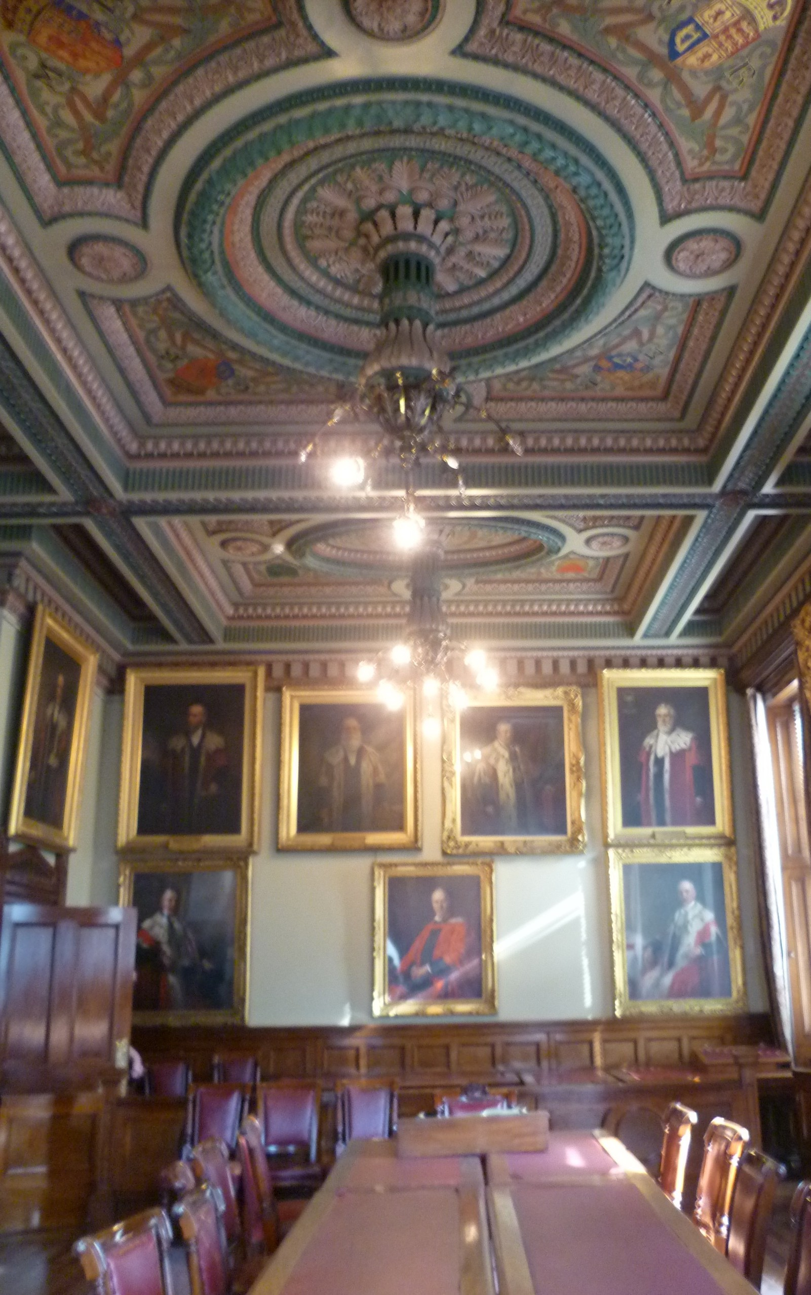 Council Chamber in former Leith Town Hall